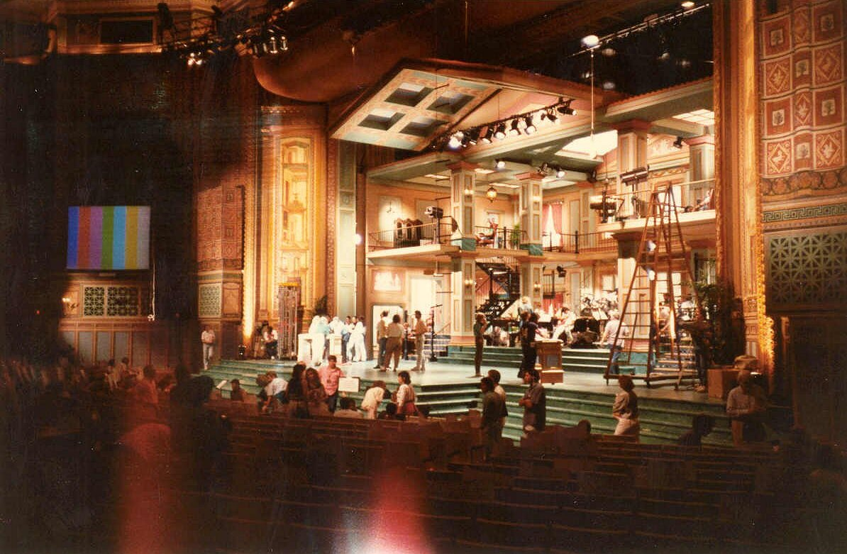 The set for the 1988 Emmys - at the Emmy rehearsal 8/27/88 - Permission granted to copy, publish, broadcast or post but please credit "photo by Alan Light" if you can